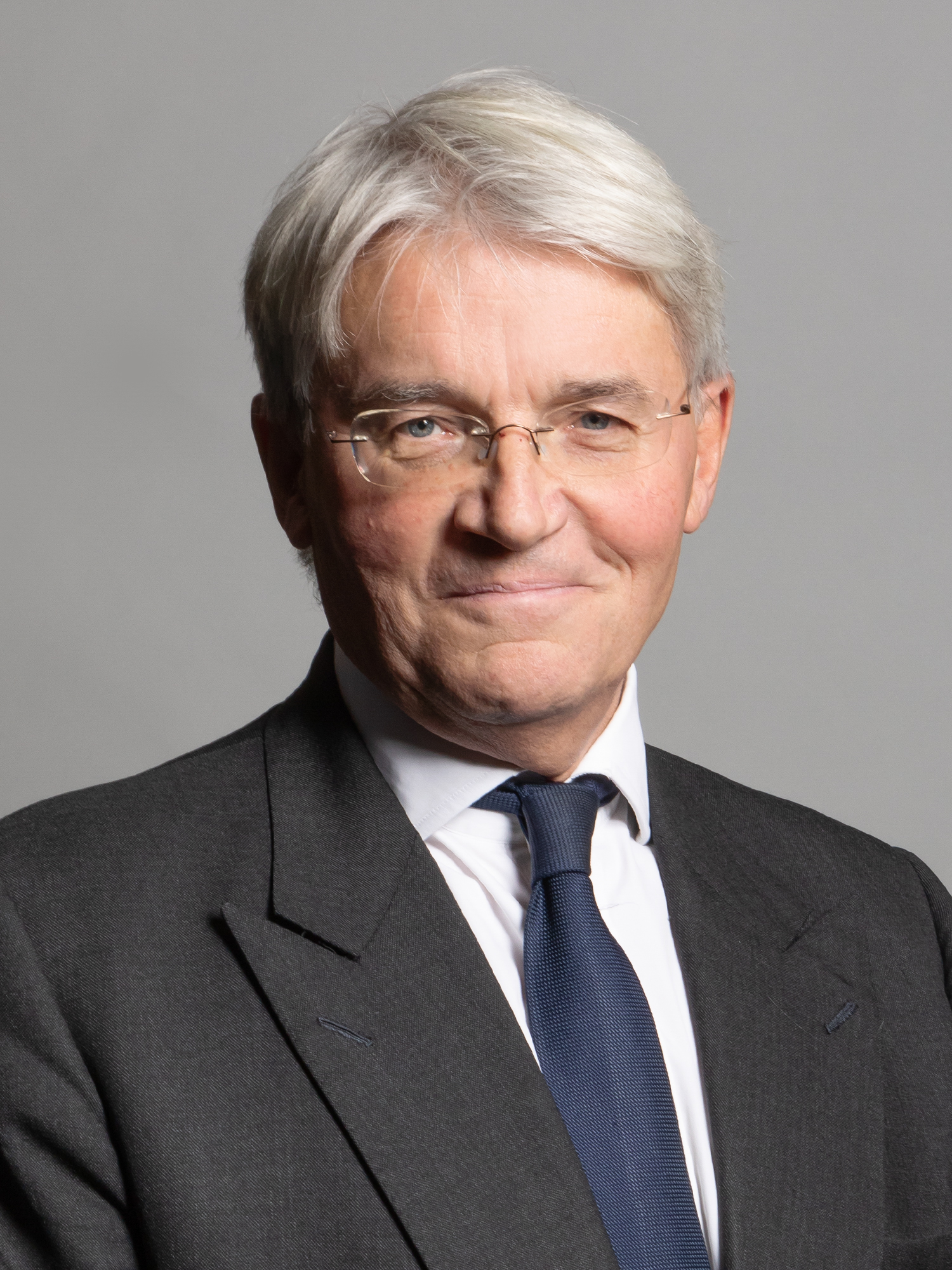 Official portrait of Rt Hon Andrew Mitchell MP 3×4 portrait of Mr Andrew Mitchell